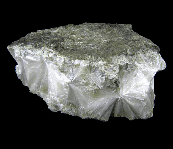 Pectolite Locality: Bergen Hill, Bergen County & Hudson County, New Jersey, USA (Locality at ) Size: 17.4 x 15.2 x 6.5 cm. A fantastic large specimen of Pectolite from the historic Bergen Hill area in New Jersey. The piece features a large amount of white radial aggregates of Pectolite wedged between diabase. A great large cabinet from this famous area in the Hudson Palisades. Ex. Brian Kosnar Collection.